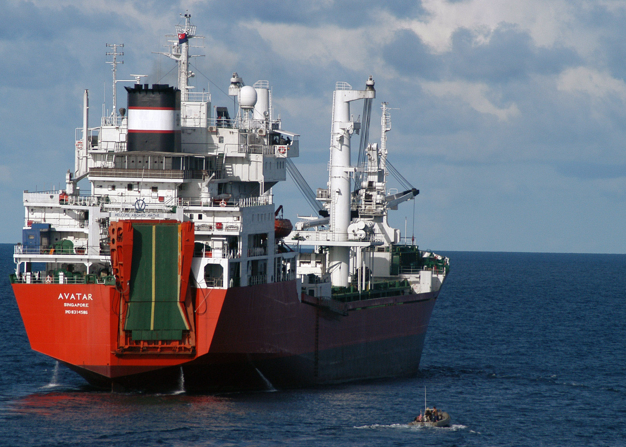 SOUTH CHINA SEA (July 15, 2010) A rigid-hull inflatable boat assigned to the guided-missile destroyer USS Chung-Hoon (DDG 93) prepares to conduct a visit, board, search and seizure exercise aboard the Republic of Singapore merchant vessel Avatar as part of Cooperation Afloat Readiness and Training (CARAT) Singapore 2010. CARAT is a series of bilateral exercises held annually in Southeast Asia to strengthen relationships and enhance force readiness. (U.S. Navy photo by Mass Communication Specialist 2nd Class Eric J. Cutright/Released)